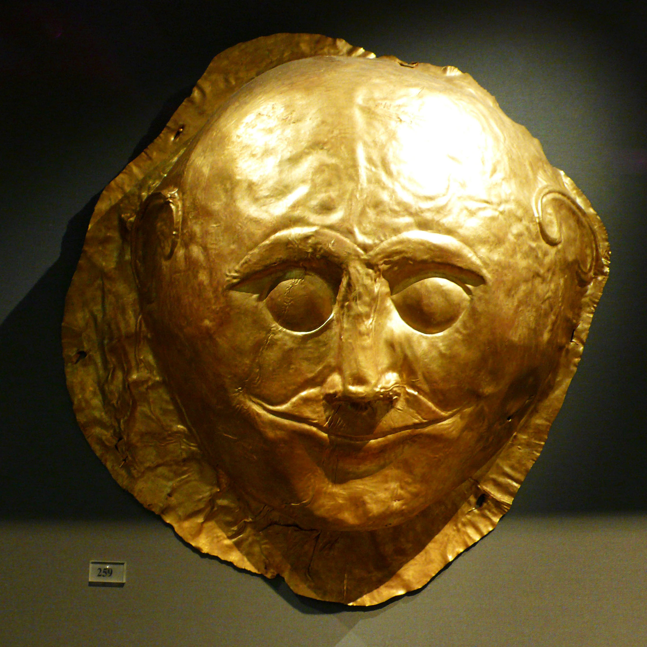 Shaft Grave IV, Grave Circle A, Mycenae. 1600-1500 BC. National Archaeological Museum in Athens. Gold male death-mask made of sheet metal with repoussé details portraying the deceased's eyes opened, the only one in Shaft Grave IV.